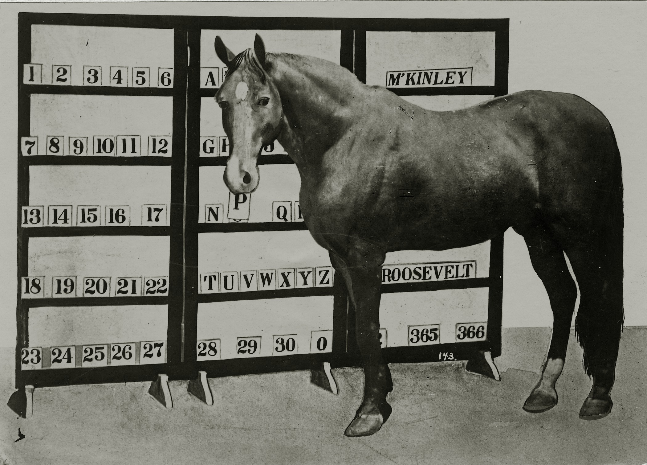 Title: Jim Key, the spelling horse standing by his numbers and letters. (attraction on the Pike at the 1904 World's Fair).